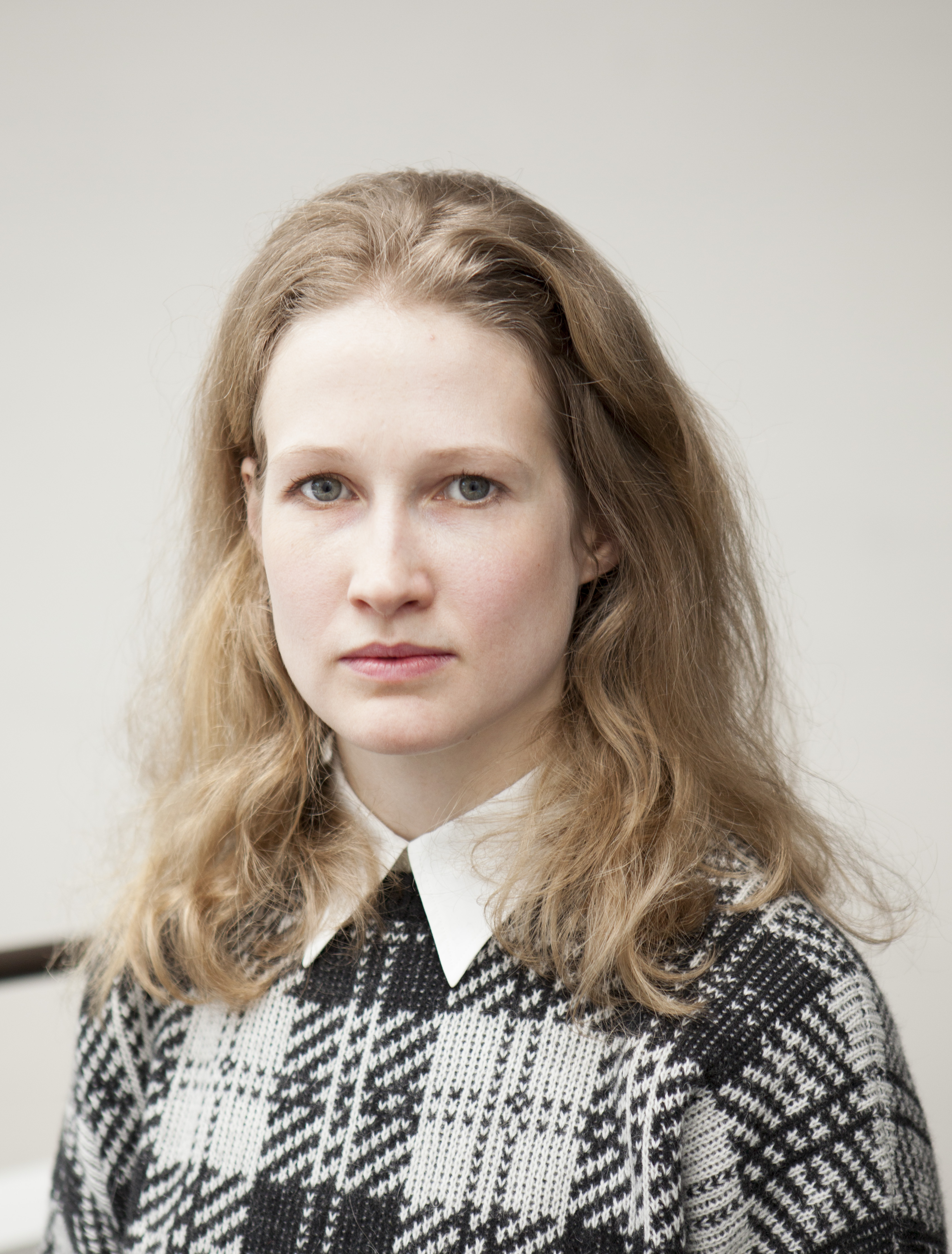 Kiasmassa taiteilija Berit Talpsepp-Jaanisoo artist in Kiasma photo: Kansallisgalleria / Pirje MykkänenFinnish National gallery / Pirje Mykkänen